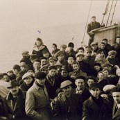 The Ship Darian